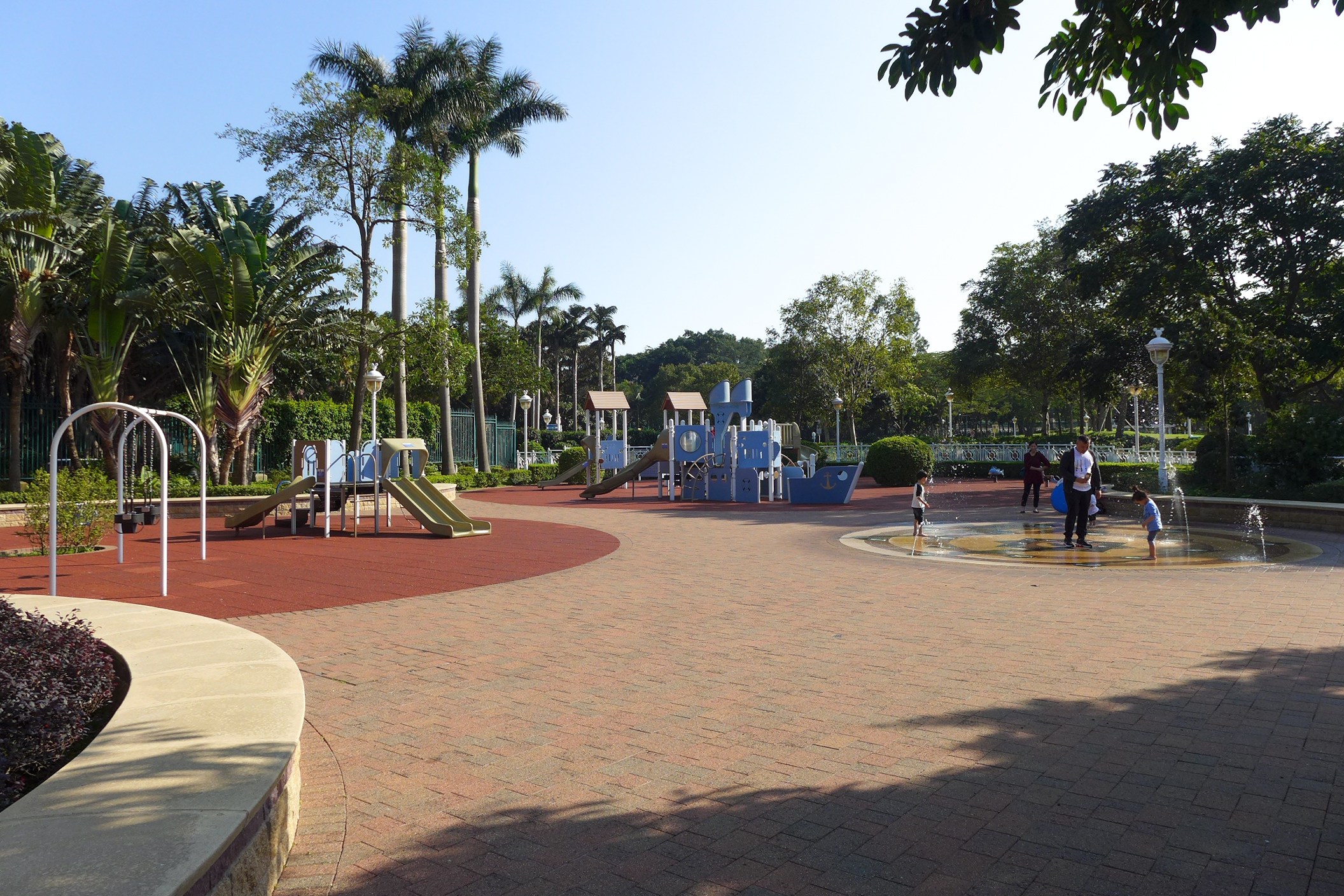 Inspiration Lake Recreation Centre Children Play area